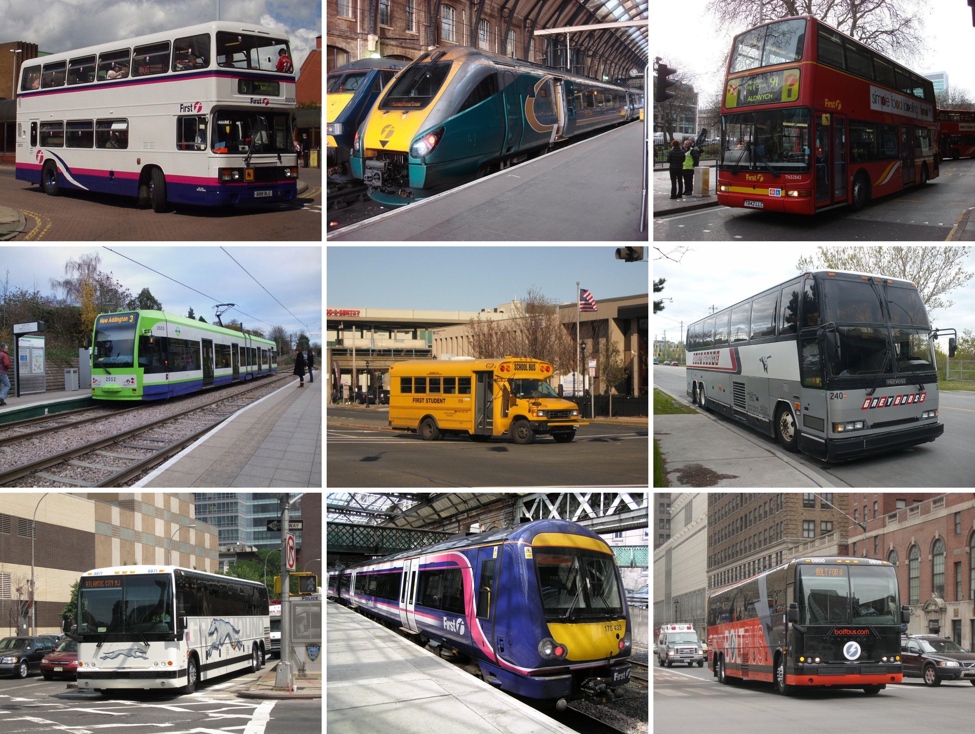 Pictures are listed in order, top to bottom, left to right across each row. Starting from the top left: First Chester and the Wirral Leyland Olympian 30074 in Chester Bus Exchange 222104 at Kings Cross, London, UK A bus on London Buses route 91. Tram 2552 calls at Mitcham tramstop with an eastbound service to New Addington First Student (USA) #215516 (an ex-Laidlaw bus) turns off of Newbridge Road in Hicksville, New York, USA. Grey Goose Bus Lines #240 Greyhound Lines Prevost X3-45 #8871 operates schedule 8531, departing the Port Authority Bus Terminal. 170433 at Edinburgh Waverley on 1st July 2005. This unit carries the new First ScotRail livery. BoltBus #0800 in New York City on the West Side of Manhattan.